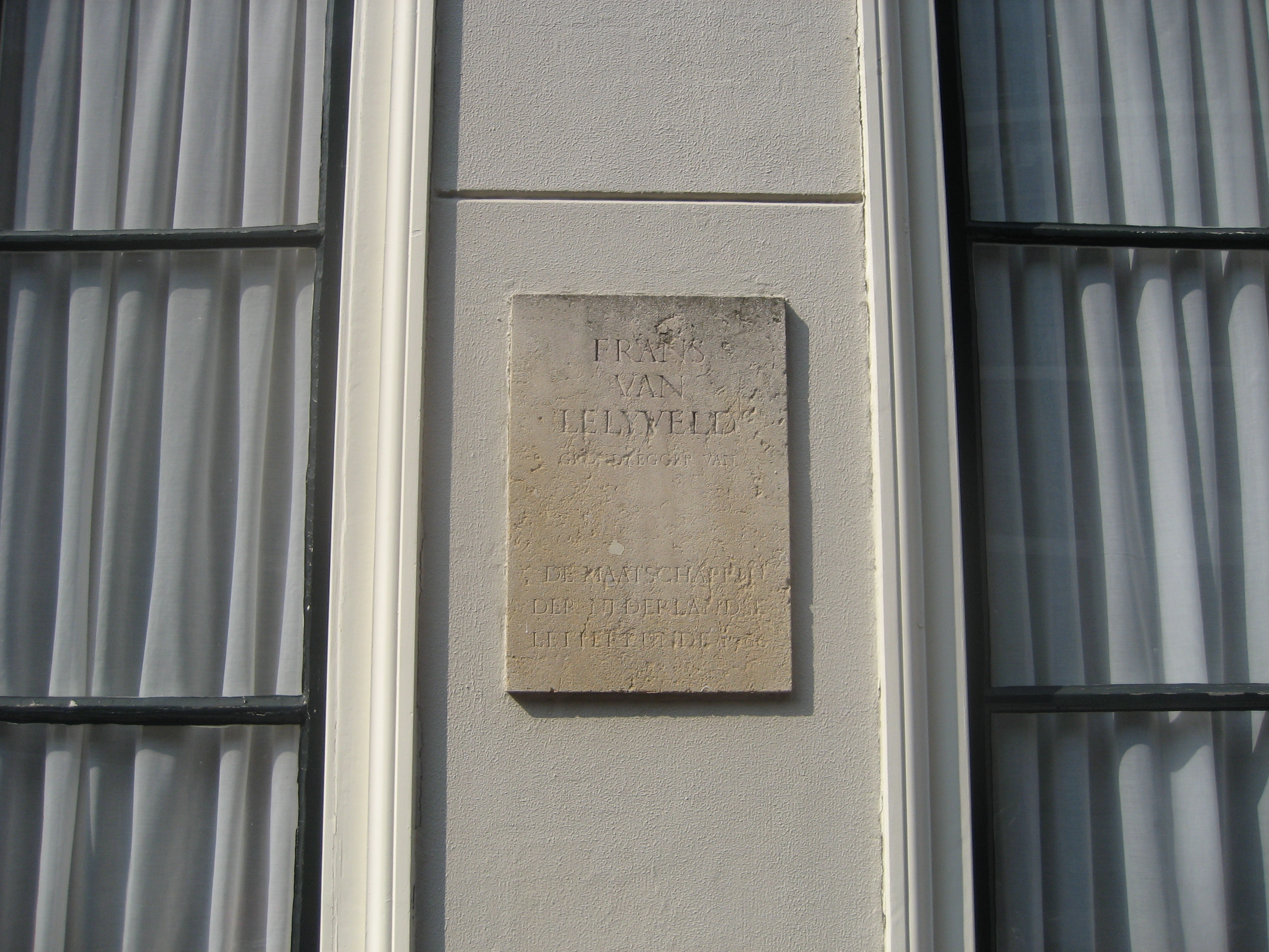 Placque at Hogewoerd 126-B, Leiden (the Netherlands). Text reads: Frans van Lelyveld, grondlegger van de Maatschappij der Nederlandse Letterkunde 1766